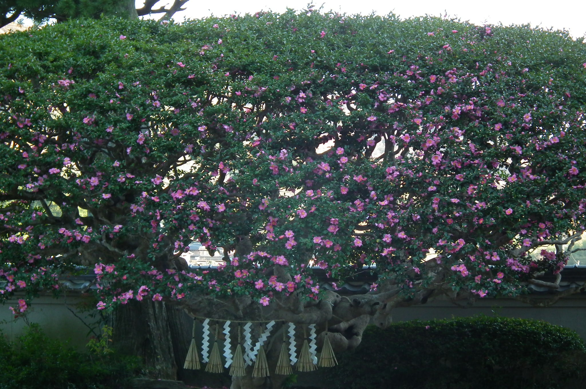 兵庫県篠山市今田町今田新田82 西方寺サザンカ